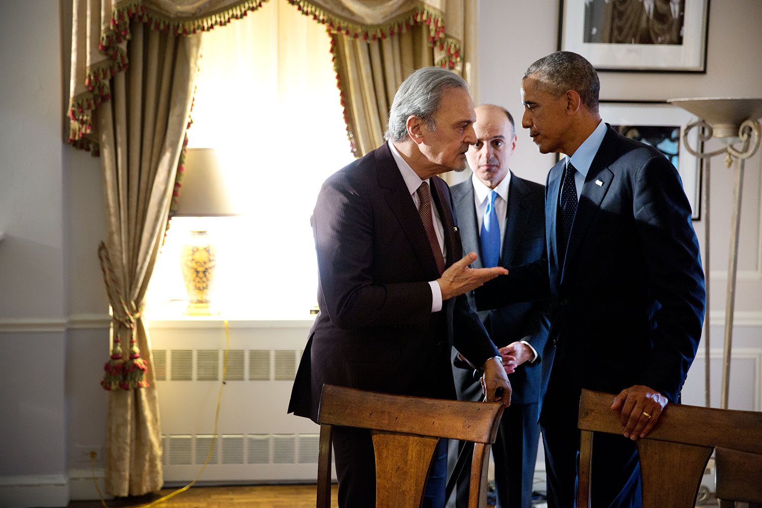 President Barack Obama speaks with Prince Saud Al-Faisal, Foreign Minister of Saudi Arabia following a meeting with Arab coalition leaders in the fight against the terrorist group ISIL in Iraq and Syria, at the Waldorf Astoria Hotel in New York, N.Y., Sept. 23, 2014. (Official White House Photo by Pete Souza)